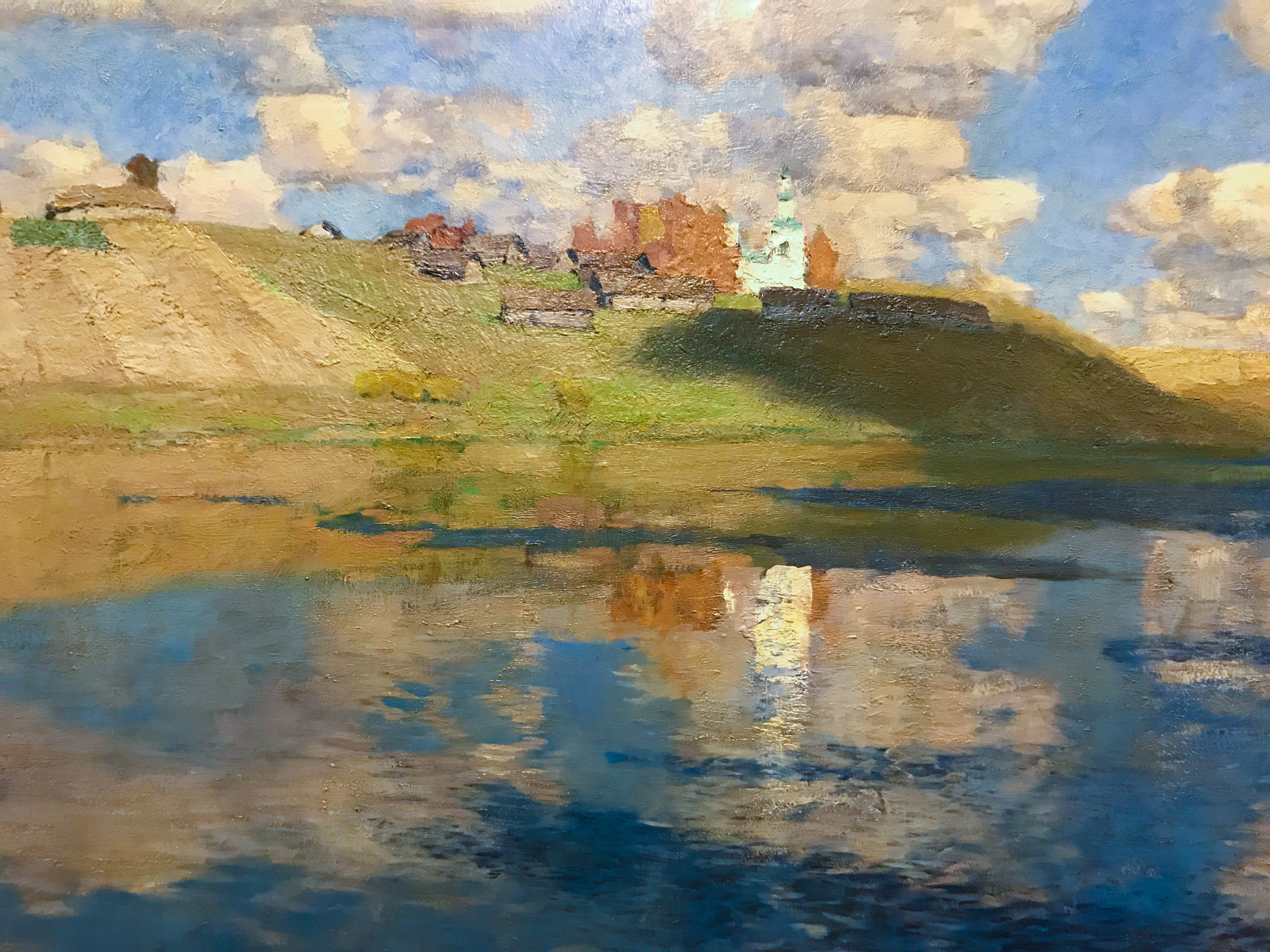 "The Lake" (detail of the painting by Isaac Levitan, 1899-1900) in the State Russian Museum